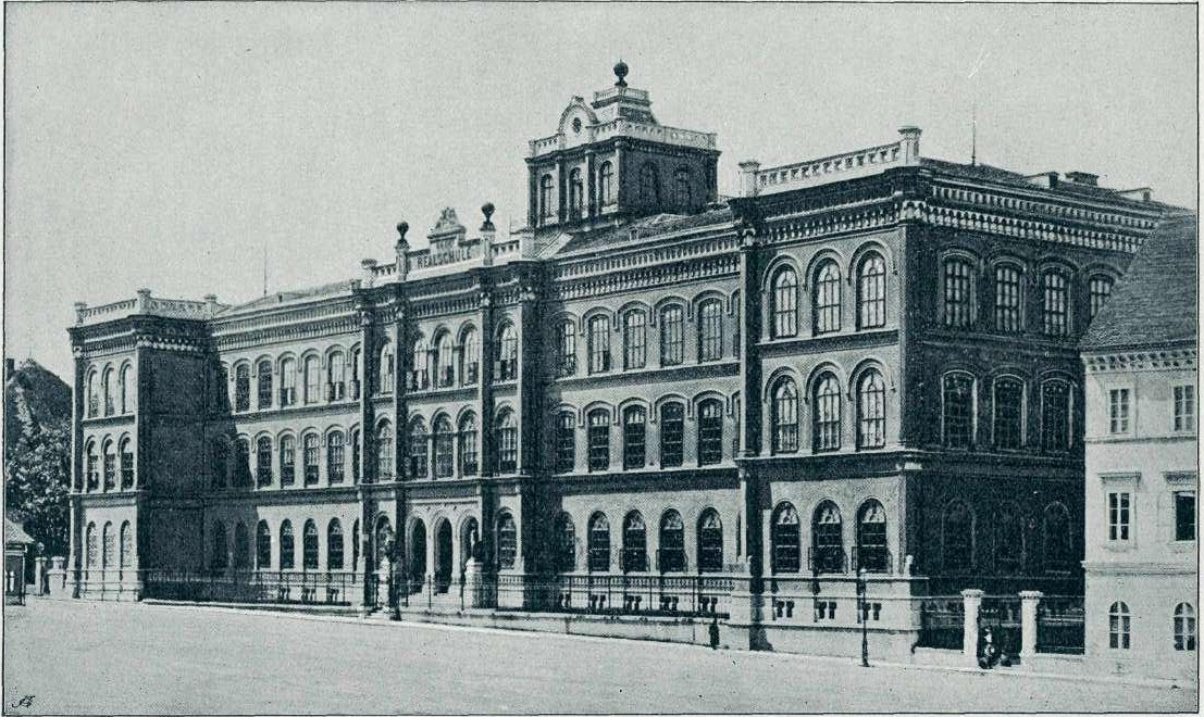 Secondary school in Ljubljana - the situation in 1902